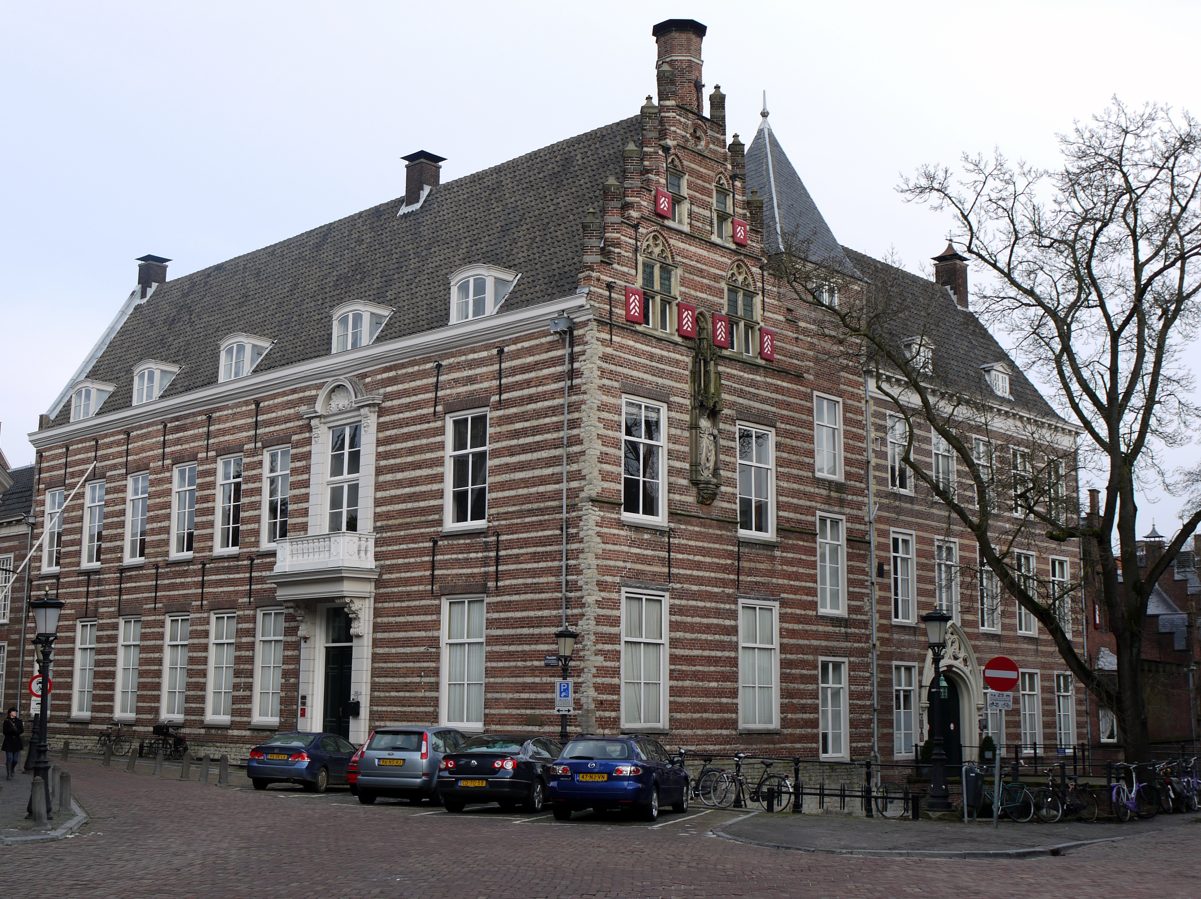 Paushuize, a house at Pausdam/Kromme Nieuwegracht, Utrecht. Built 1517. Its national-monument number is 36215.